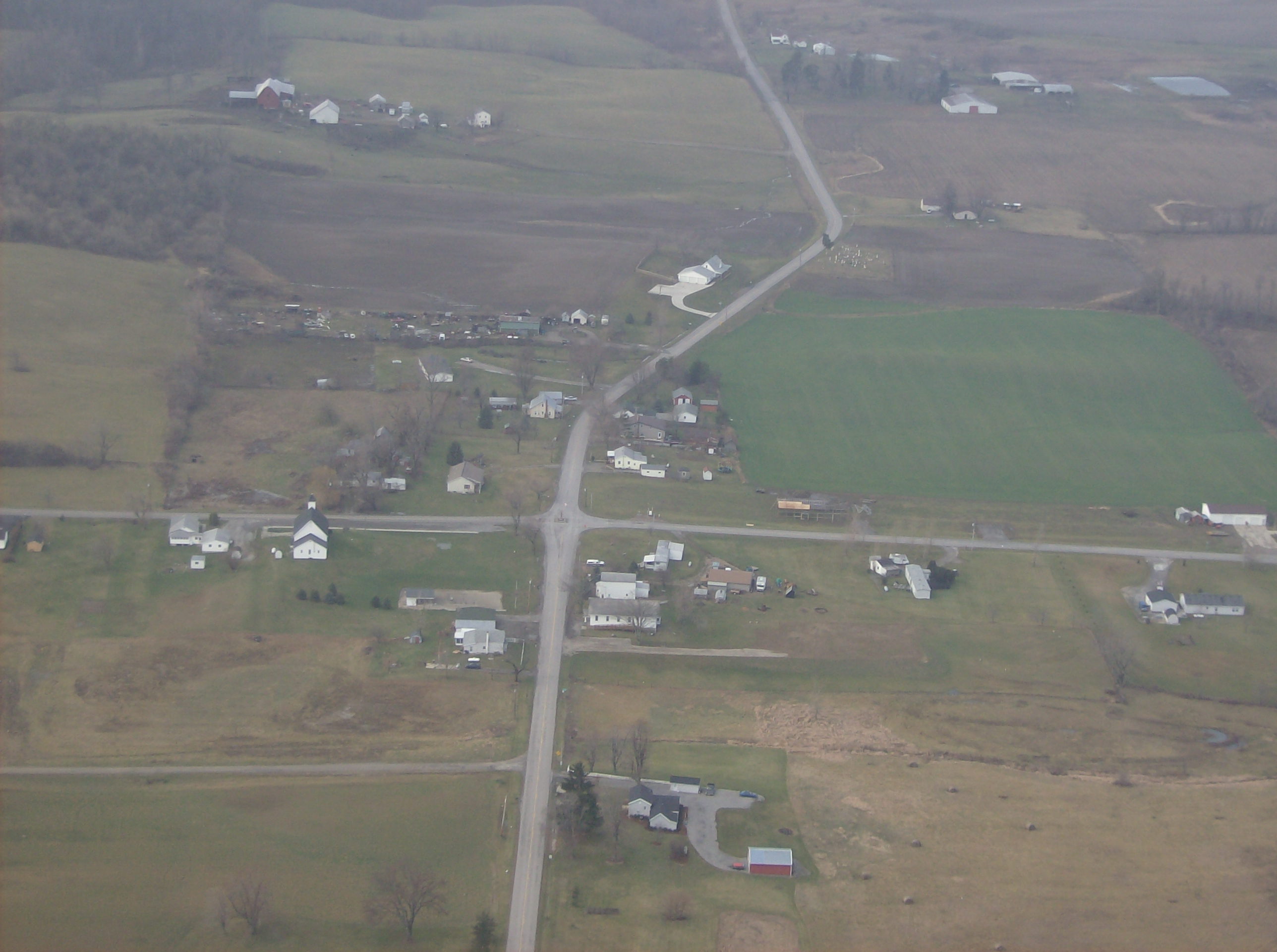 Aerial view of Pickrelltown, an unincorporated community in northern Monroe Township, Logan County, Ohio, United States. Picture taken from a Diamond Eclipse light airplane at an altitude of 2,600 feet MSL at an bearing of approximately 253º.